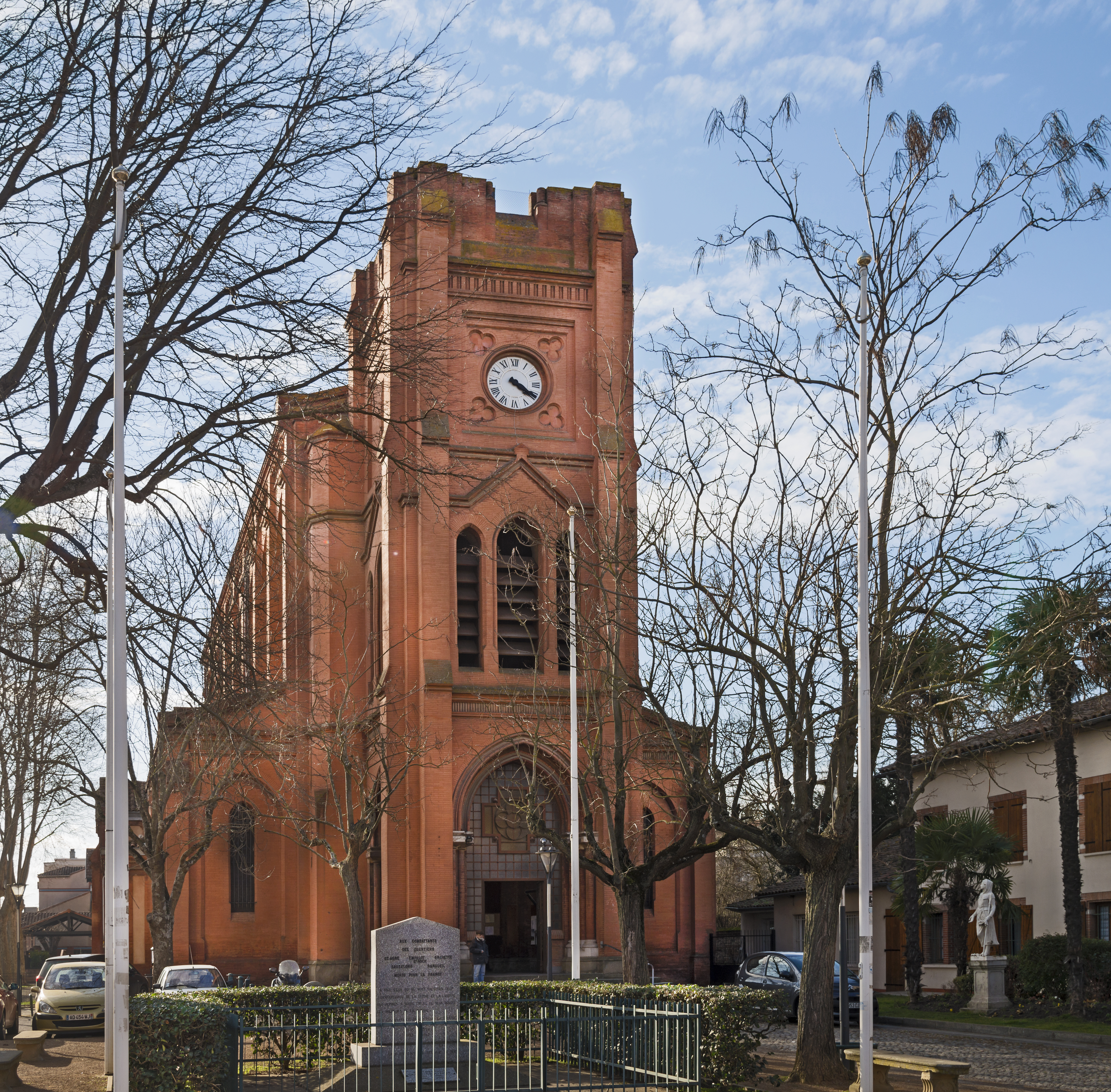 Facade of Church Sainte-Germaine in Toulouse (The bell tower was never completed) - War memorial Saint-Agne neighborhood